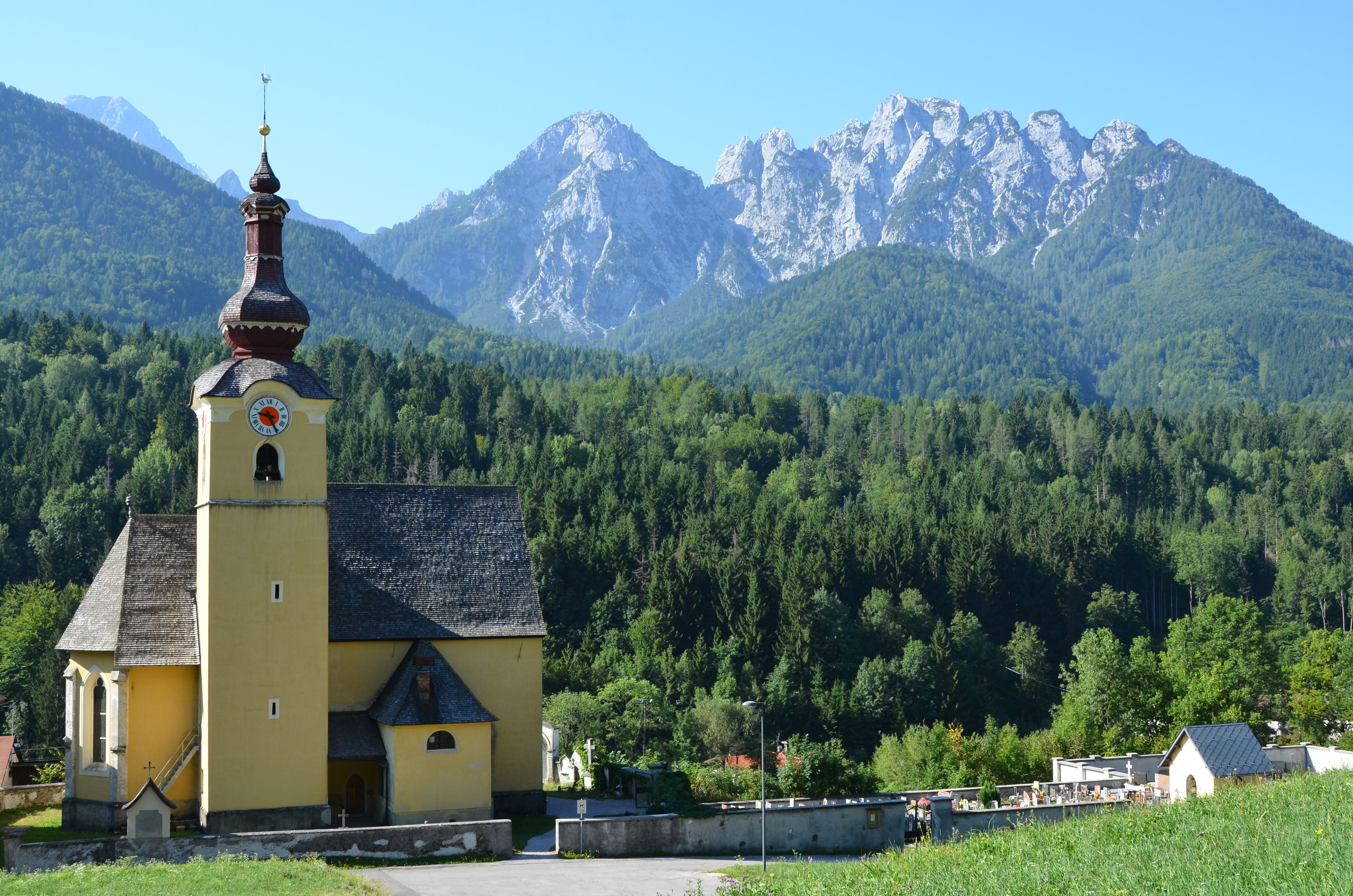 Parish church Saint Leonard at Weissenfels in Val Romana, municipality Tarvisio, province of Udine, region Friuli-Venezia Giulia / Italy / EU